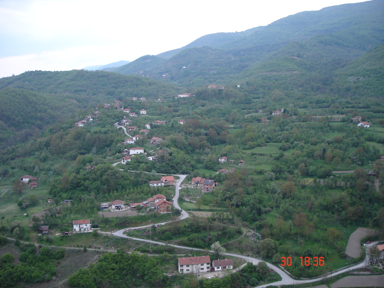 View of the village of Lukovo (Struga region), Macedonia